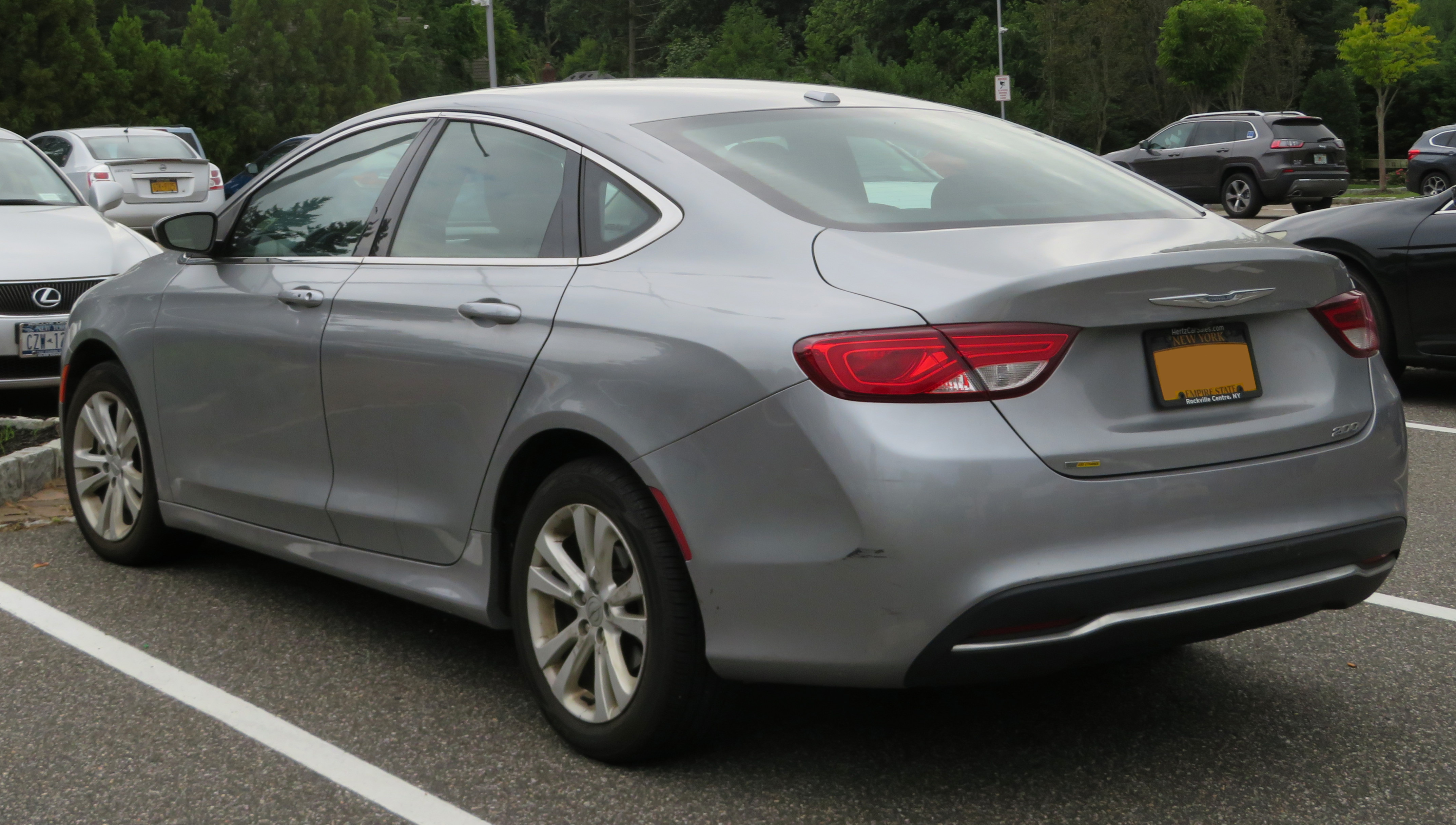 A 2015 Chrysler 200 Limited photographed in Manhasset, New York, USA